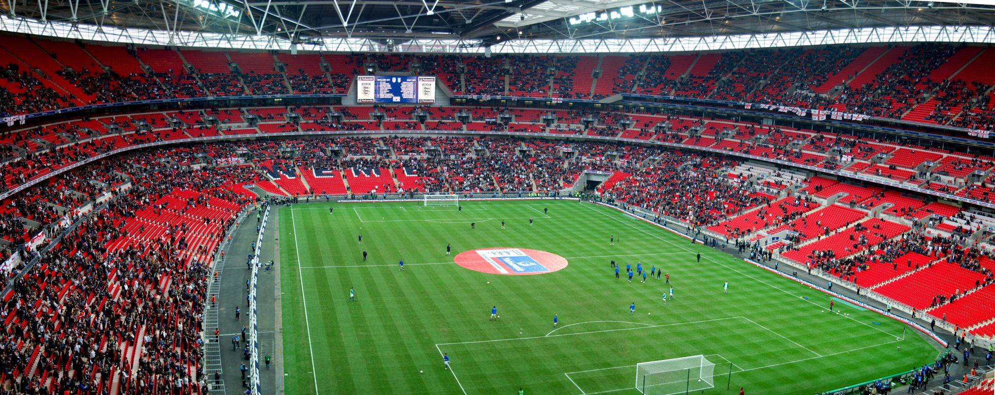 Inside panorama of Wembley StadiumWembley Pano-wideangle